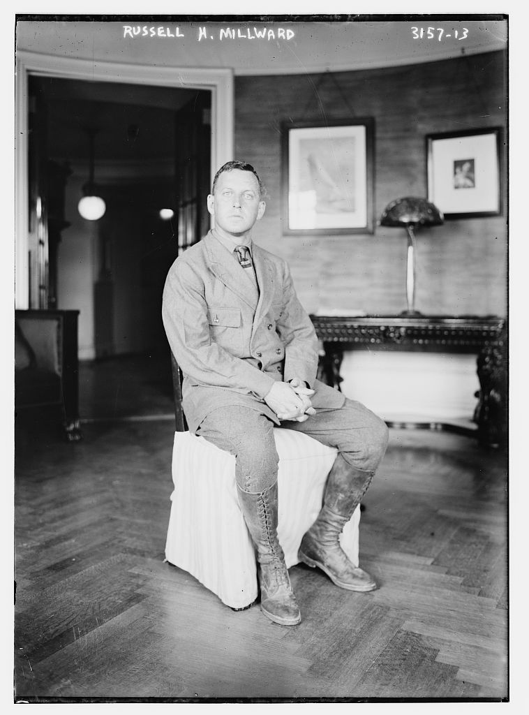 Russell Hastings Millward seated in 1913